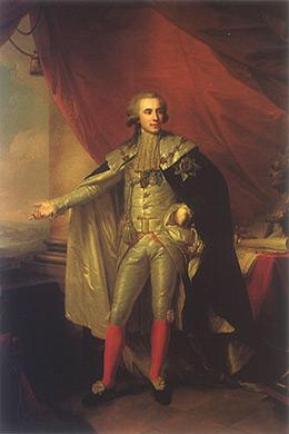 Portrait of Platon Zubov